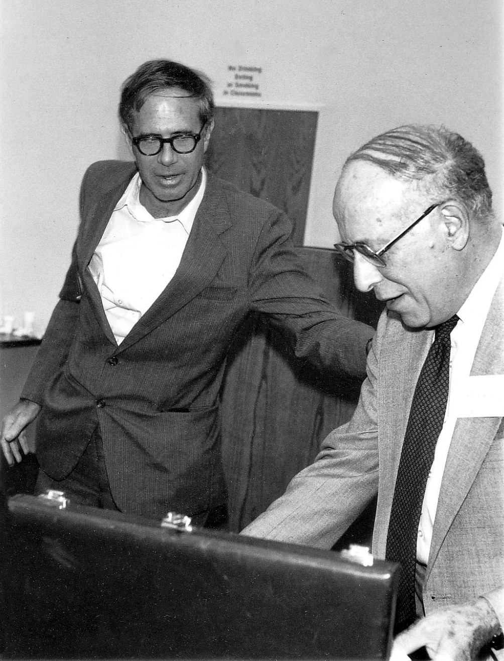 UFOlogists James Moseley and Philip J. Klass at the 1983 CSICOP Conference in Buffalo, NY